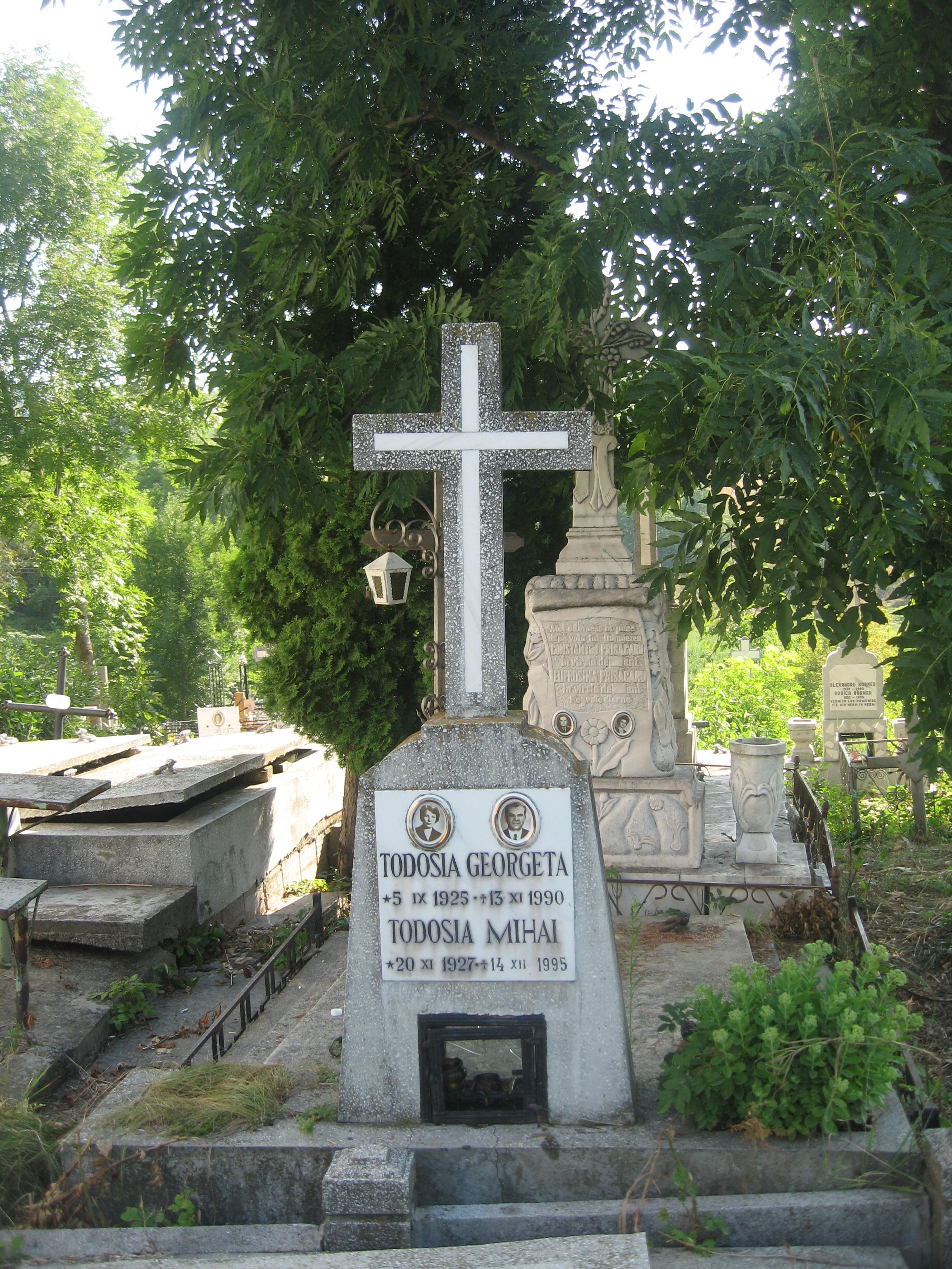 Mihai Todosia